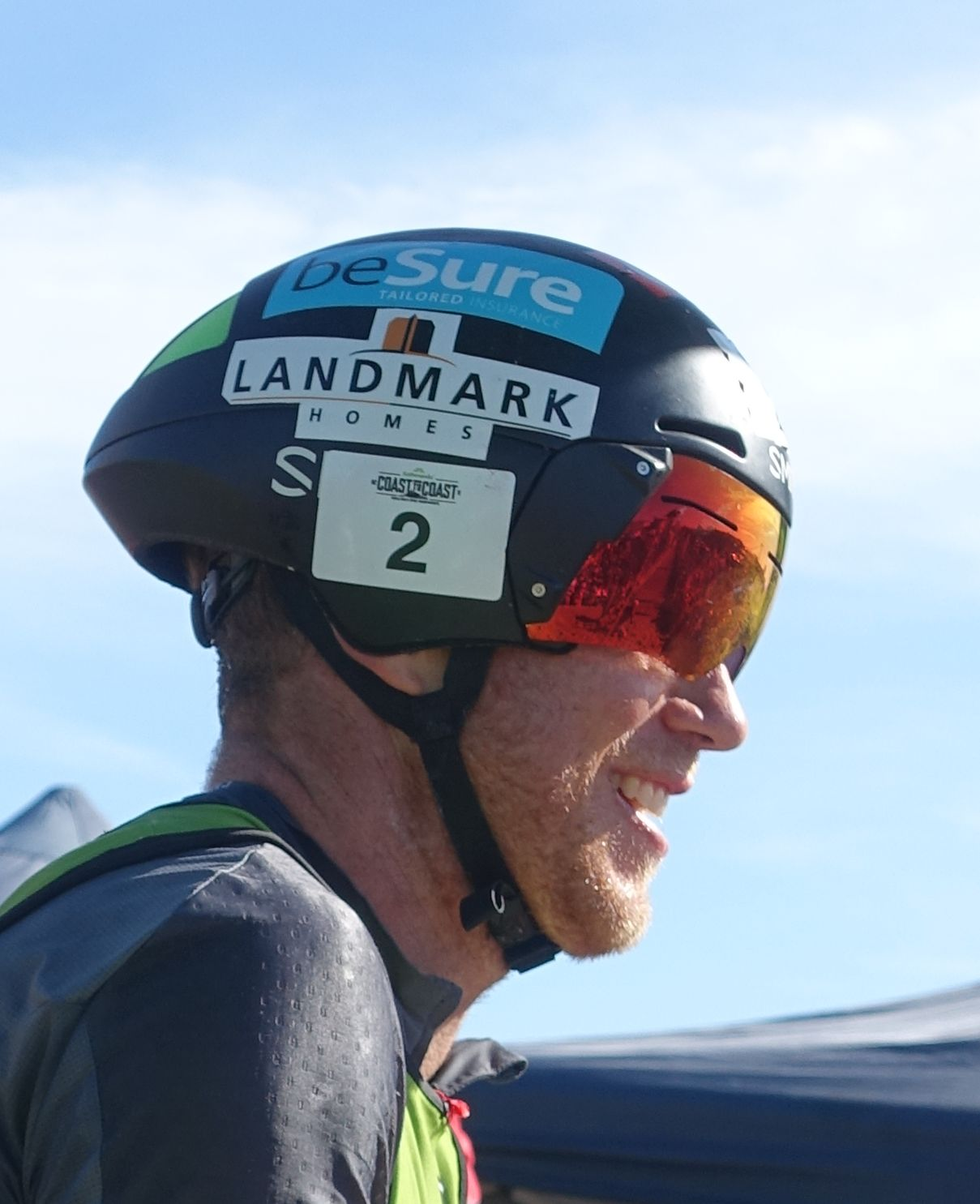 Dougal Allan winning the 2019 Coast to Coast